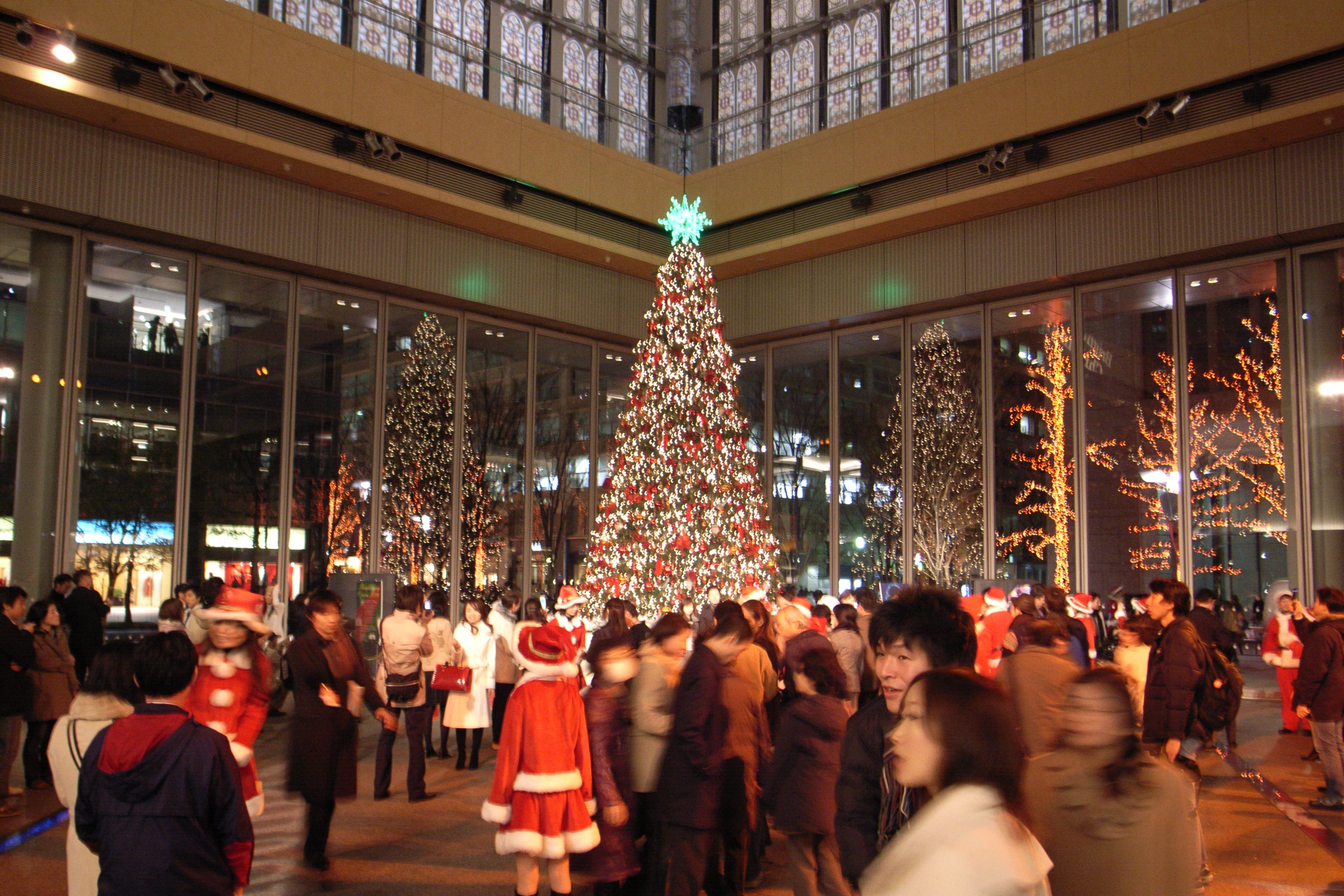 A Christmas tree in a public space.